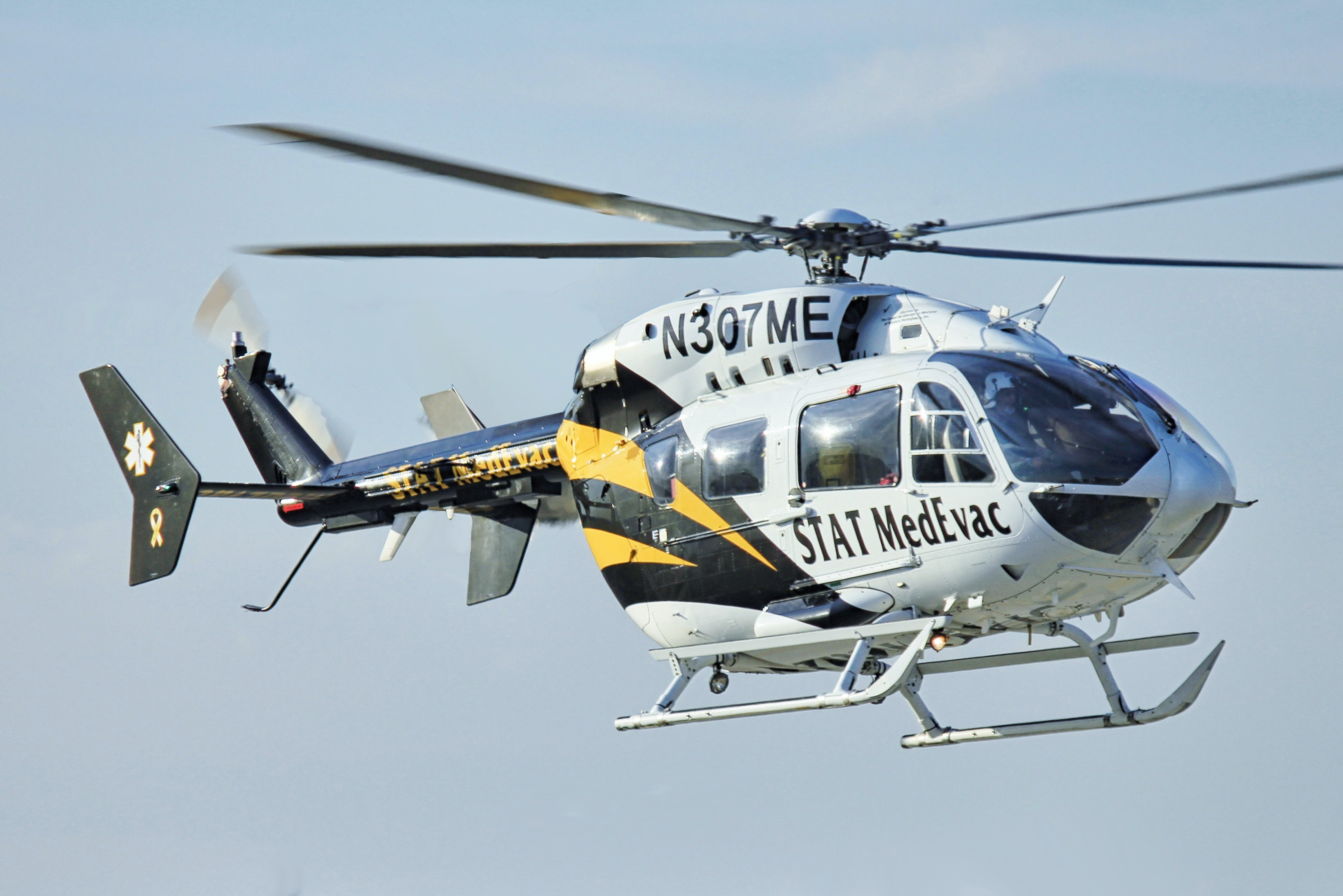 EC145 STAT Med helicopter